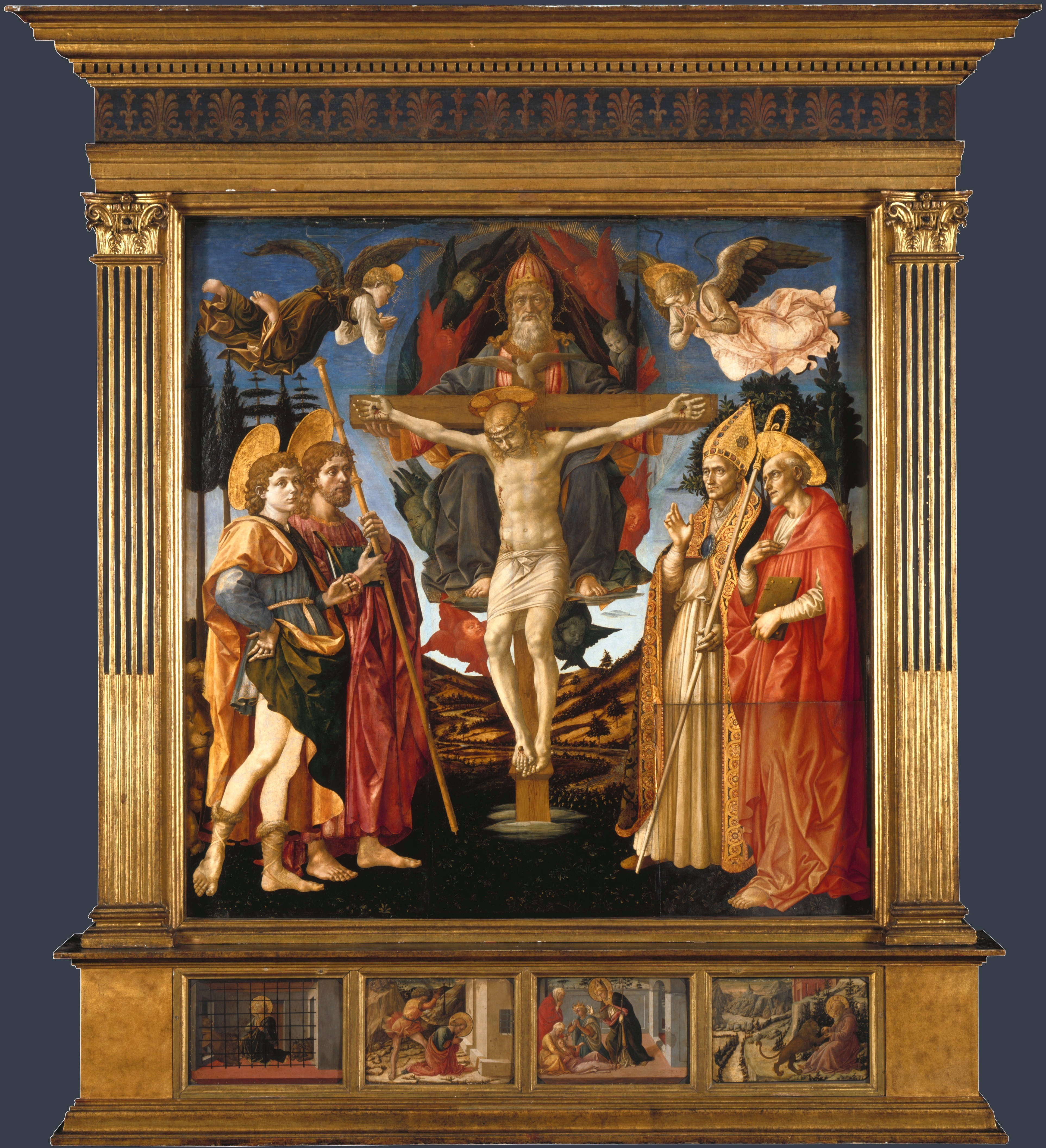 Francesco Pesellino and Fra Filippo Lippi and workshop. The Pistoia Santa Trinità Altarpiece. 1455-60. London NG.